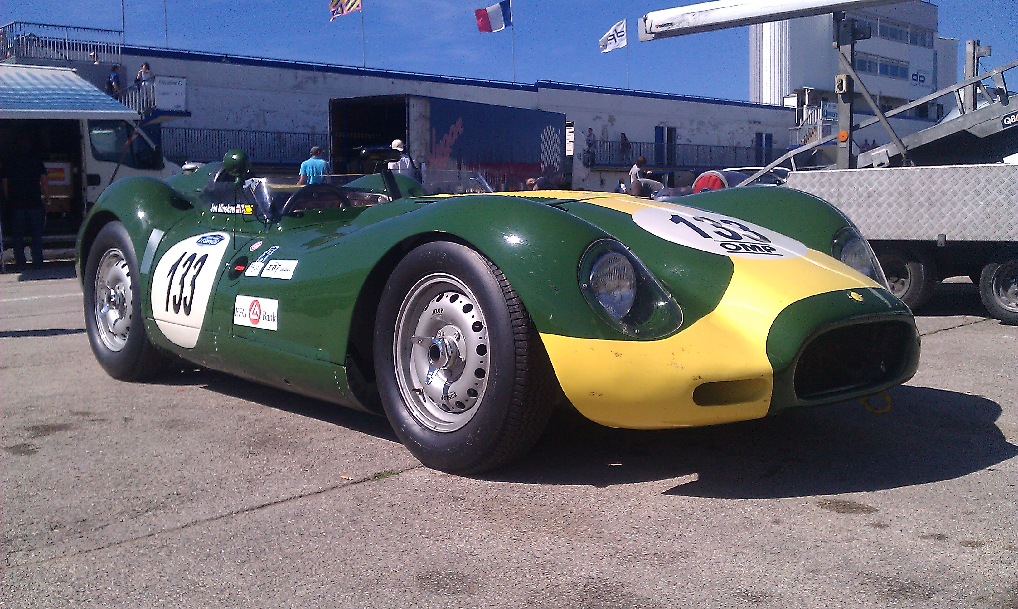 A Lister Jaguar Knobbly in the paddock of Dijon-Prenois, during the Grand Prix de l'Âge d'Or 2011.